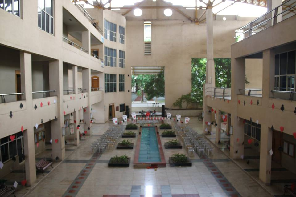 Campus Life At I2IT, Pune ; International Institute of Information Technology, Pune